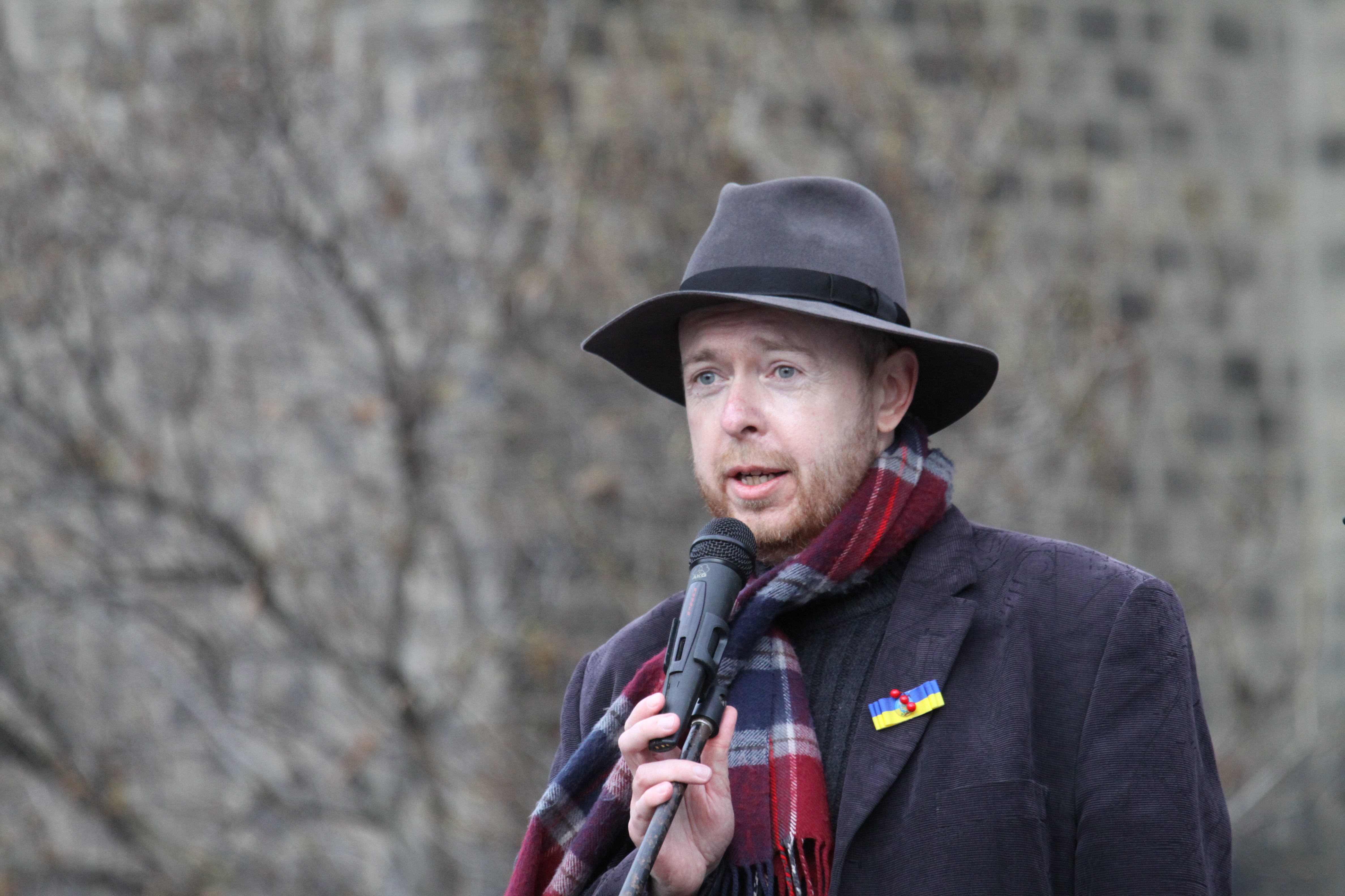 Demonstration called "Tahle Země patří všem "REFUGEES WELCOME"" on the occasion of the state holiday of 17th of Ocotber, Prague, Czech Republic.